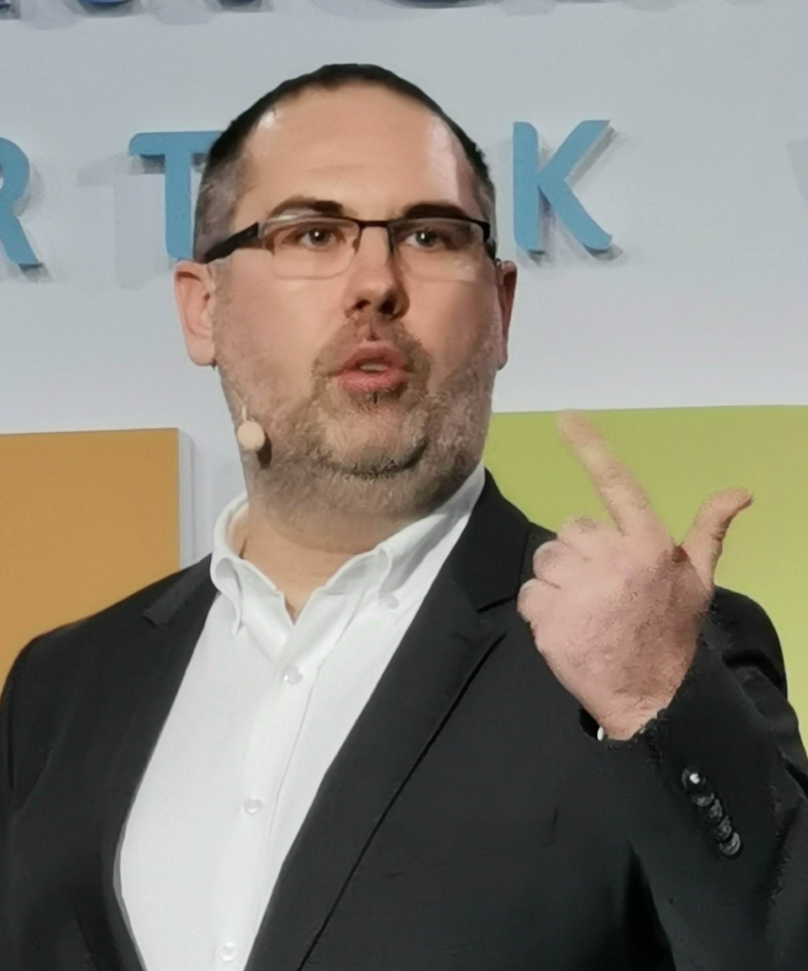 Csizi Péter CEO of KÉZMŰ-ERFO-FOKEFE on the 17th of January, 2020. Értékplacc, Várkert Bazár.